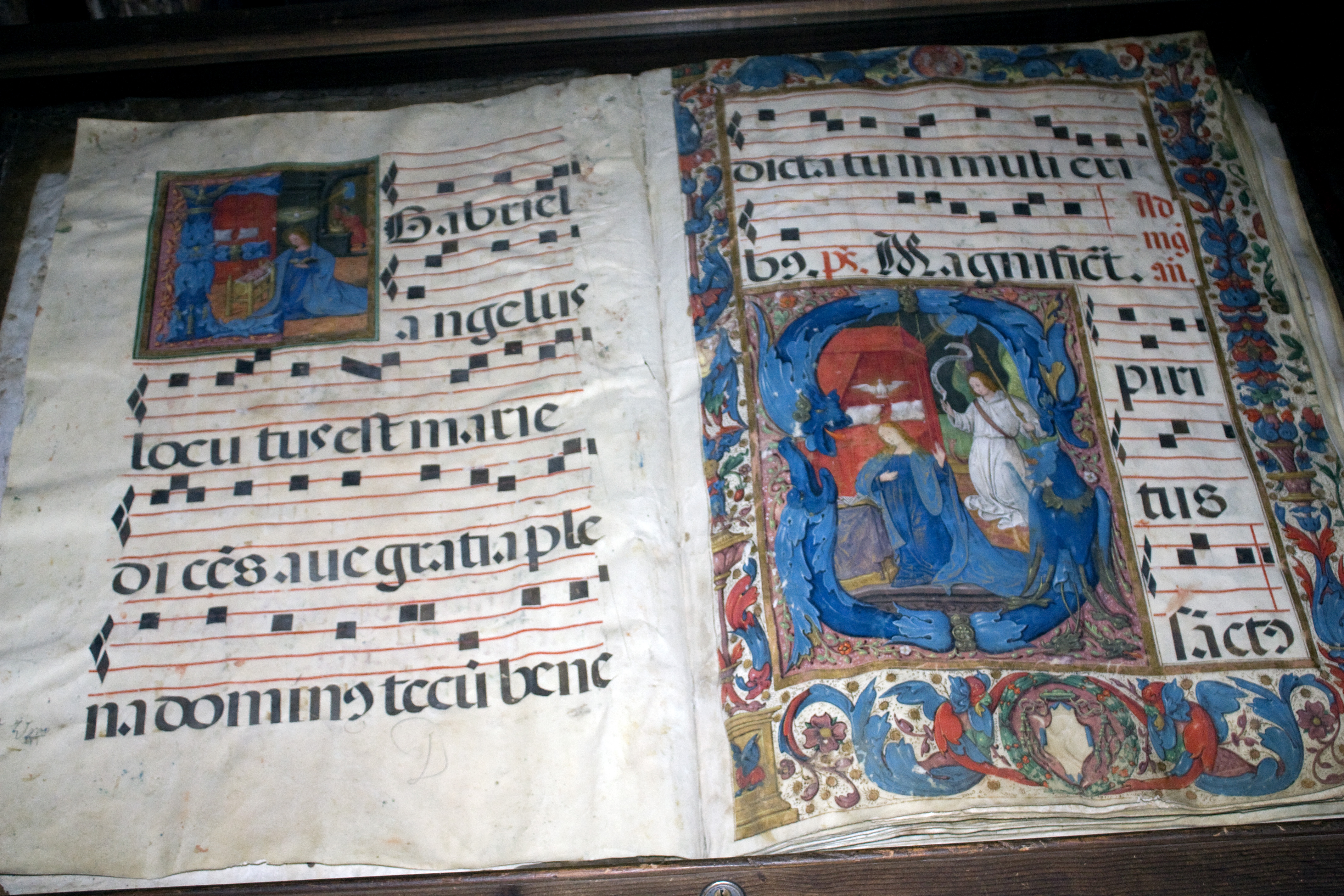 Psalter.